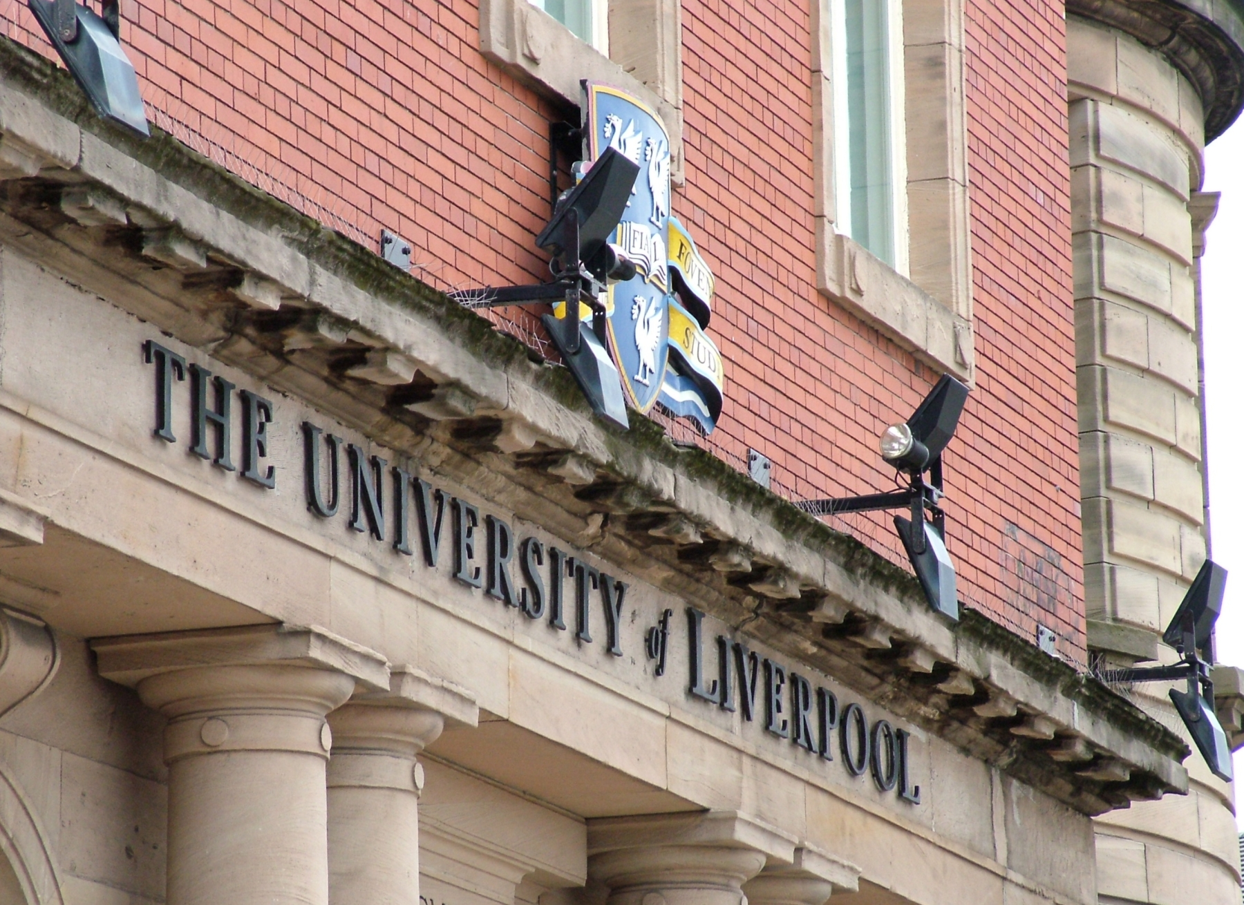 University of Liverpool Building.